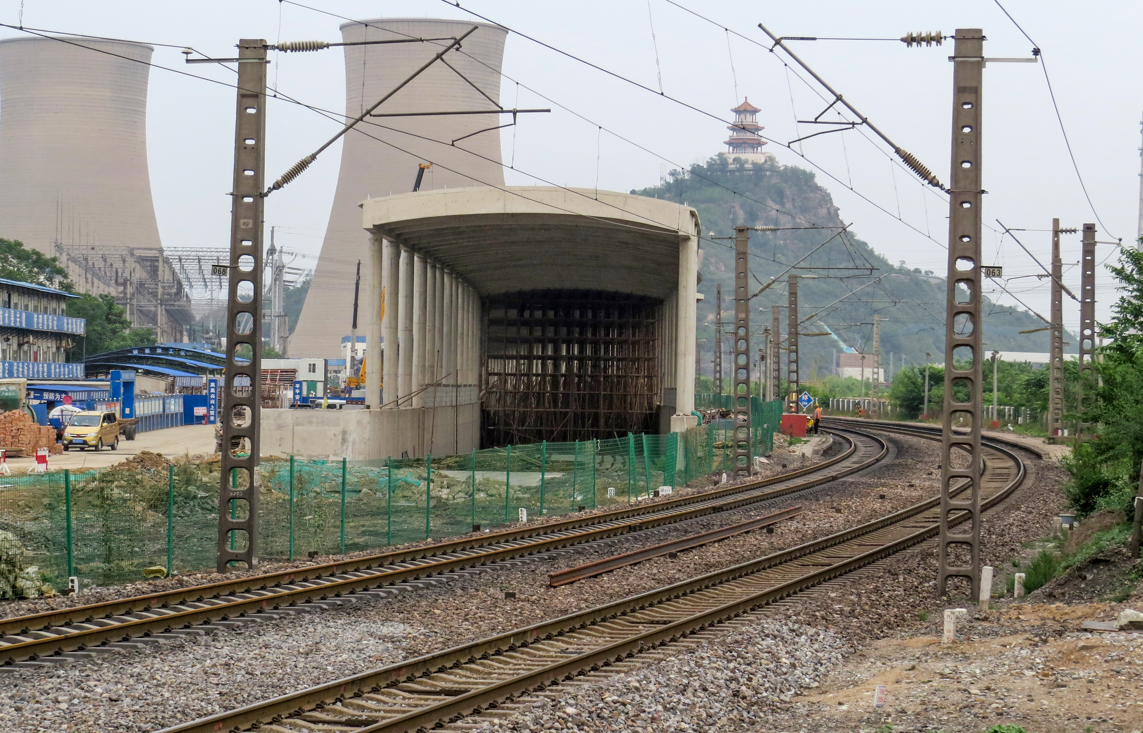 What has Yangsan Railway Station become? West Portal... but not West Portal Station on MUNI.